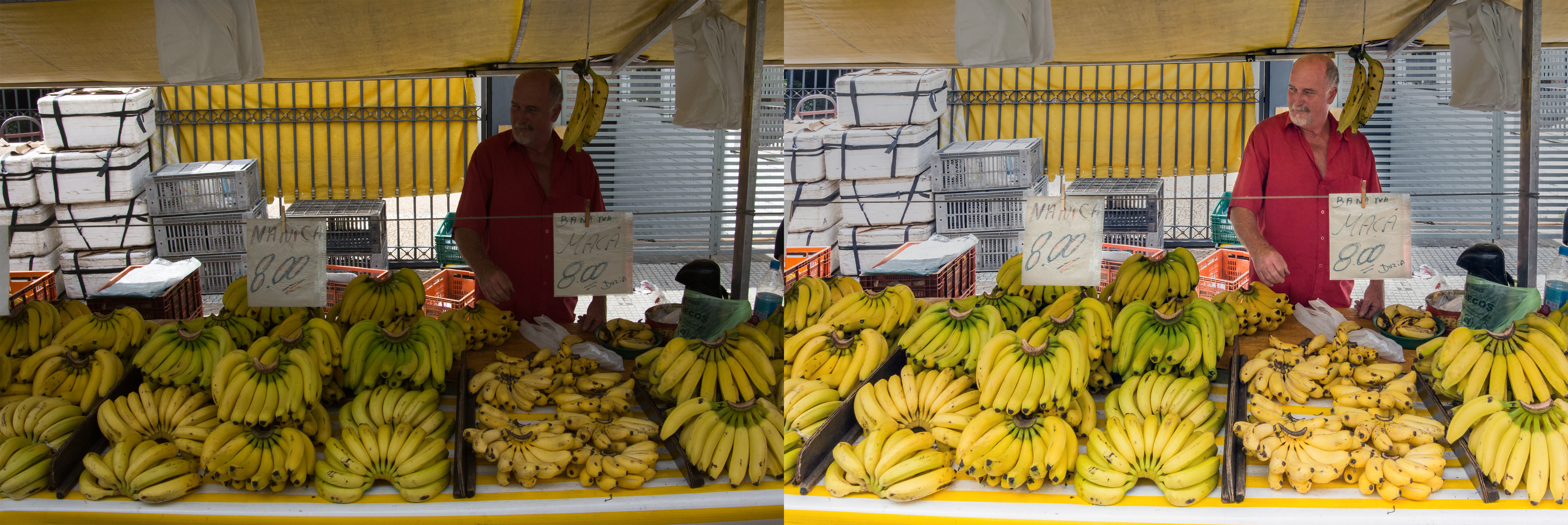 Sample before/after where highlights and shadow detail was recovered using Levels